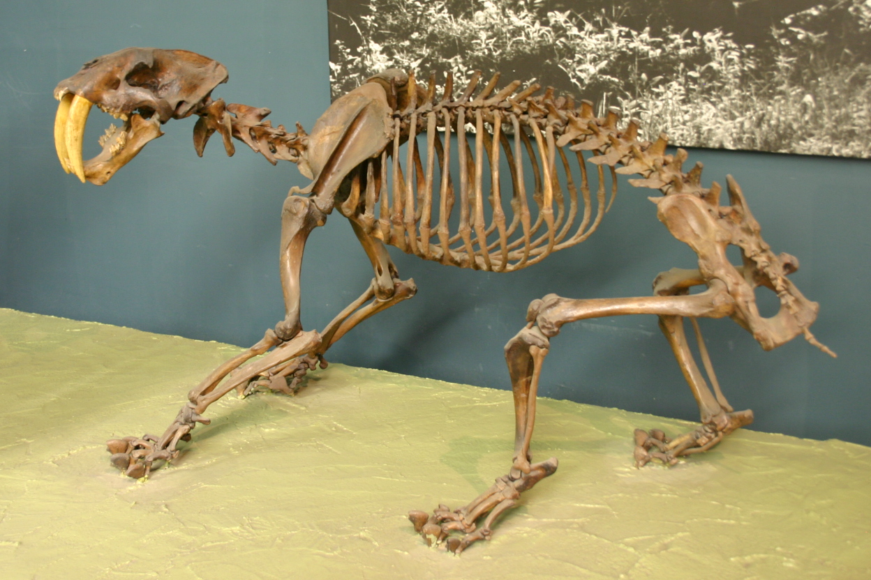 Smilodon californicus fossil at the National Museum of Natural History, Washington, D.C.